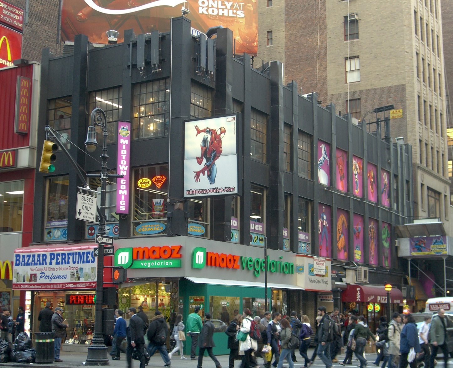 Midtown Comics Times Square, on the corner of West 40th Street and Seventh Avenue in Manhattan. The store occupies the top two floors of the building. Photo by Luigi Novi. This photo may be used for any purpose, provided that the photographer is visibly credited in each instance where it is used (See Licensing information below). For further information on the Licensing requirements, contact me here.